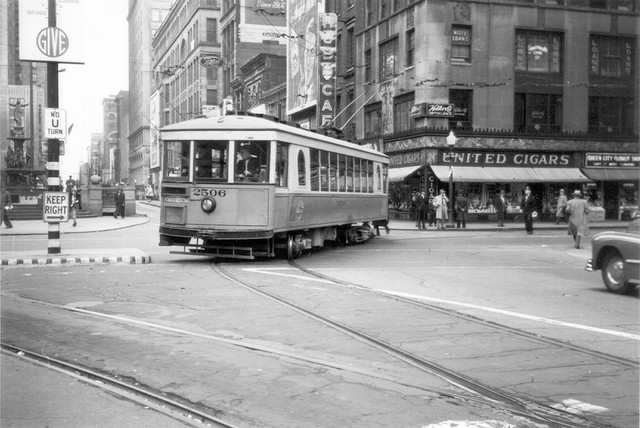 Downtown Cincinnati, Ohio, in the 1940s, looking west on 5th Street at Walnut Street, as streetcar 2506 turns east onto 5th and passes the 1871 Tyler Davidson Fountain at the fountain's longtime original location. Most of the buildings visible in this photo are now gone. Cincinnati's original streetcar system closed in 1951; construction of a new system began in 2012. The fountain was repositioned slightly in 1970 and was moved completely away from the intersection in 2006.